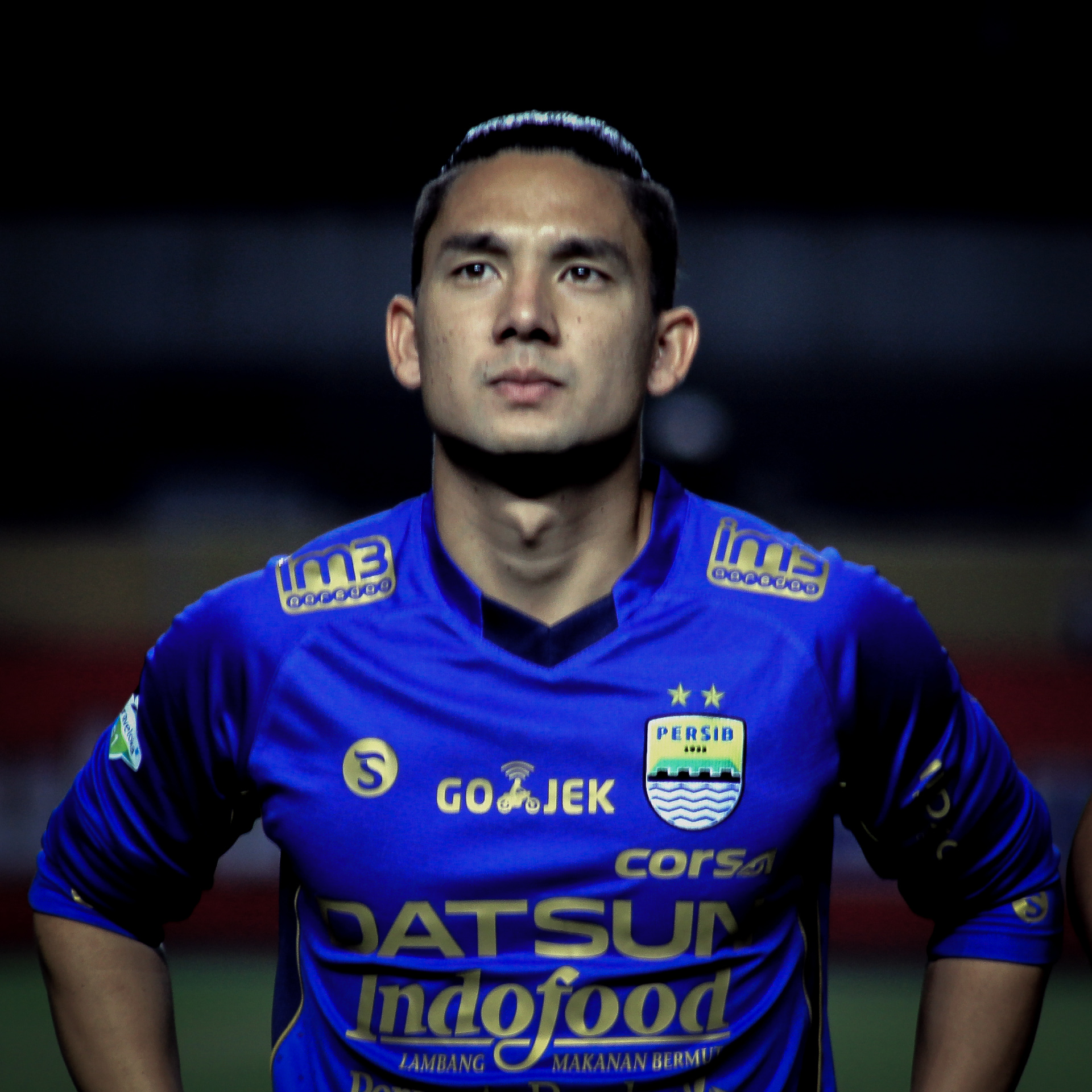 Kim Kurniawan wearing the Persib Bandung jersey